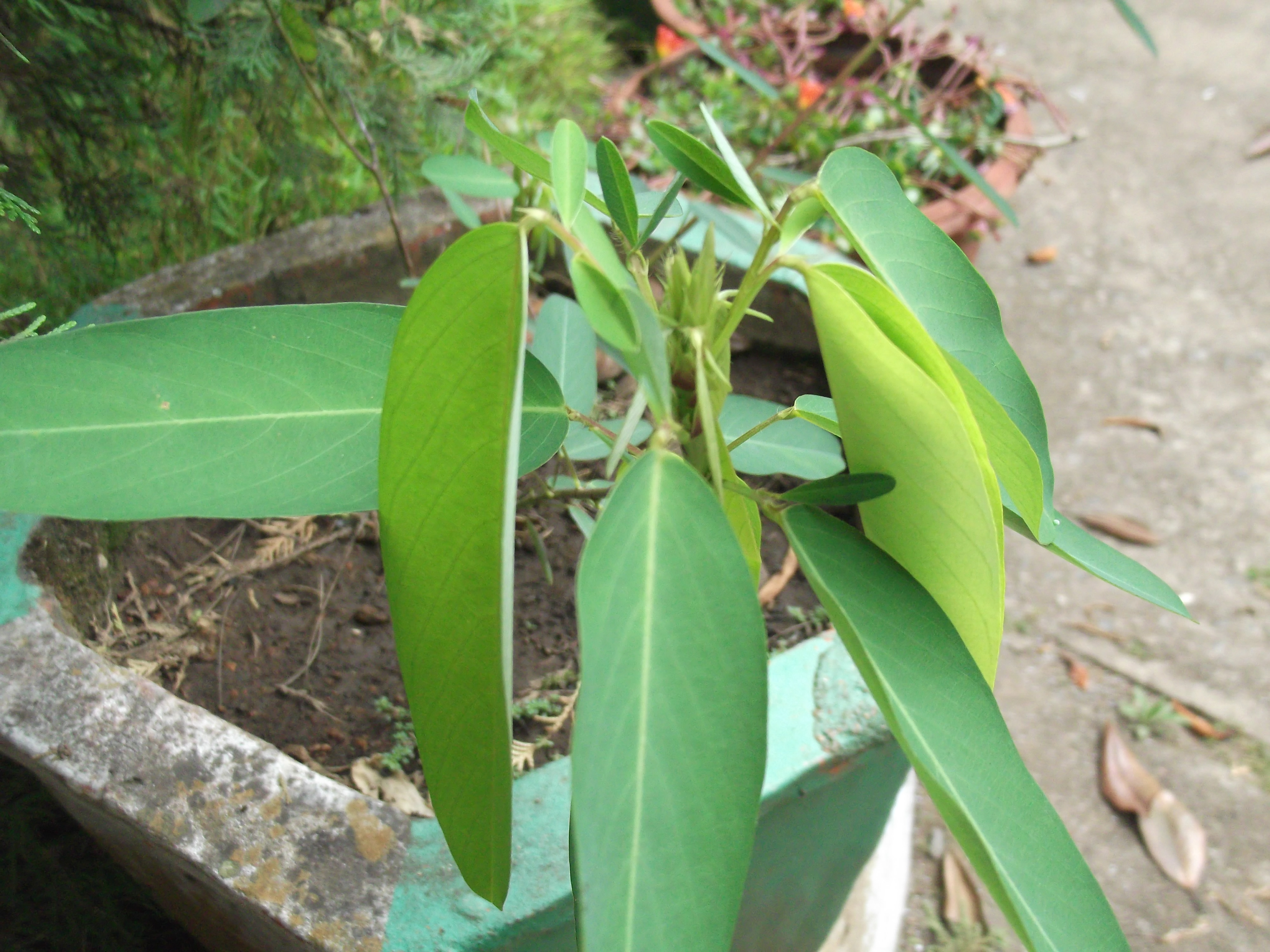 Tozhuganni-shrub,leaves 3 foliate,lateral leaves very small,flowers pink.